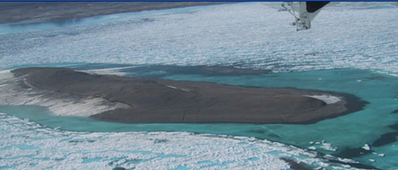 Aerial photo of Kaffeklubben Island near the northern shores of Greenland. See also description in a blog.